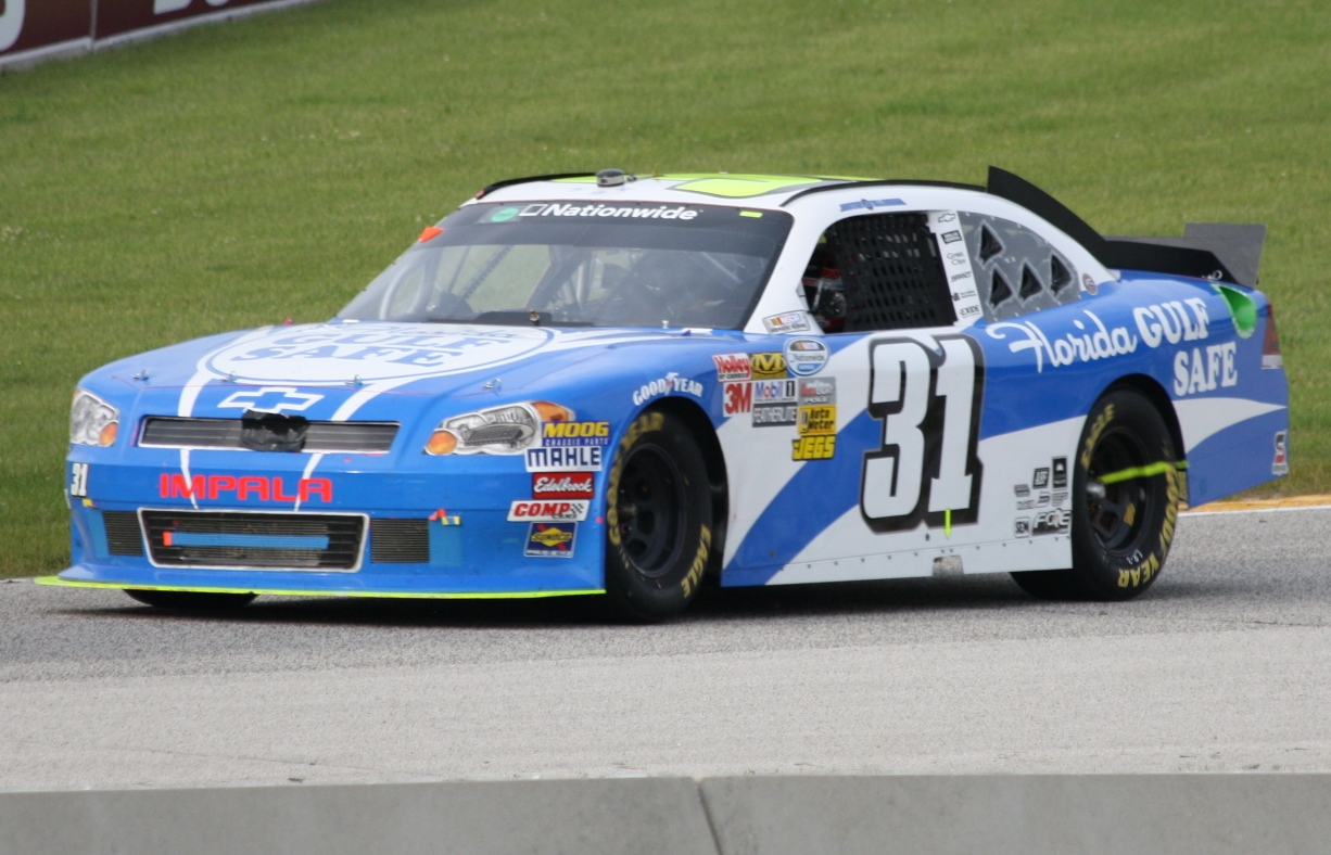 NASCAR driver Justin Allgaier racing his stock car at Road America at the 2011 Bucyros 200 Nationwide Series race. He had won the race but was unable to complete the final lap under caution since his car ran out of fuel.